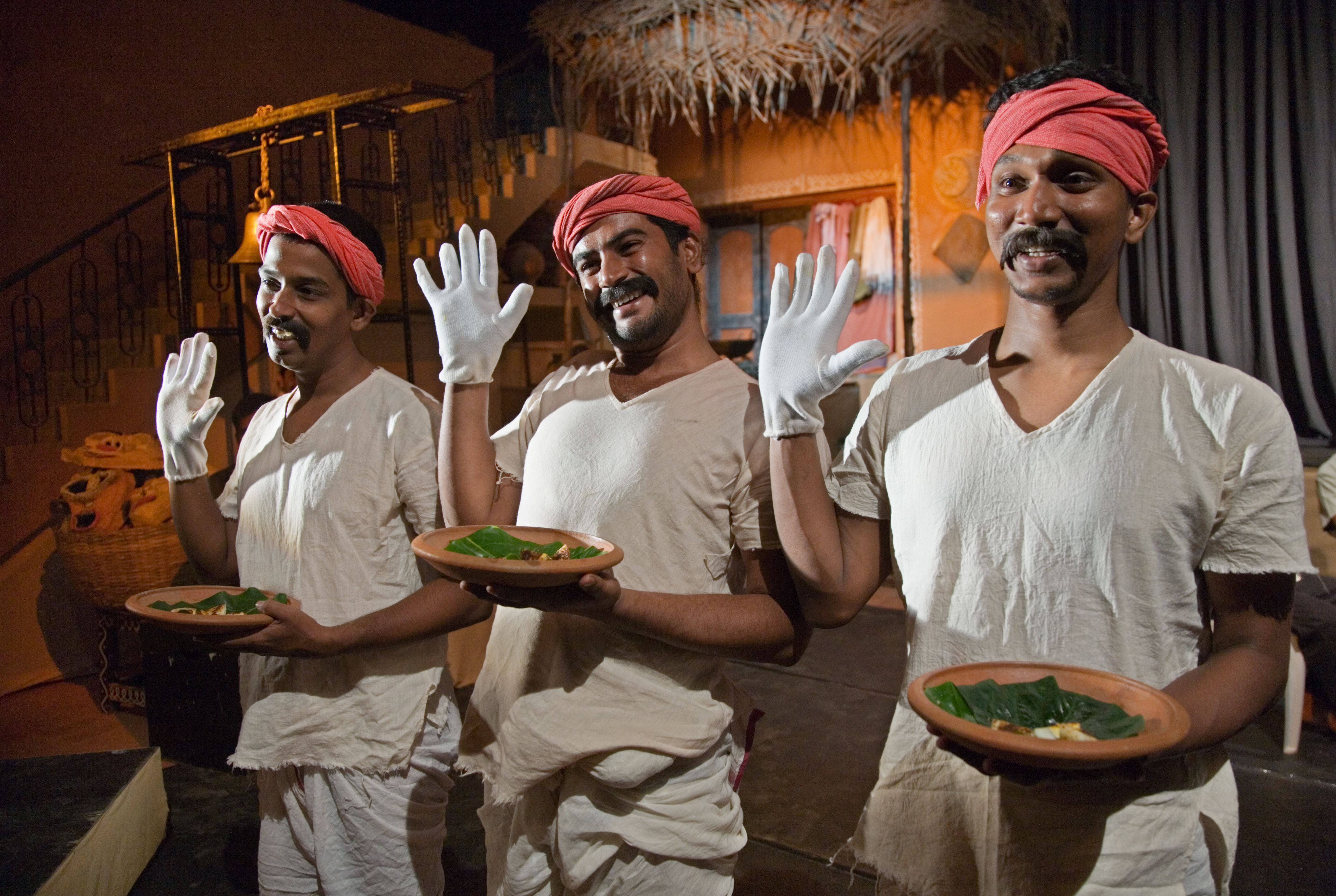 Actors in a Koothu-P-Pattarai theater perfomance. India